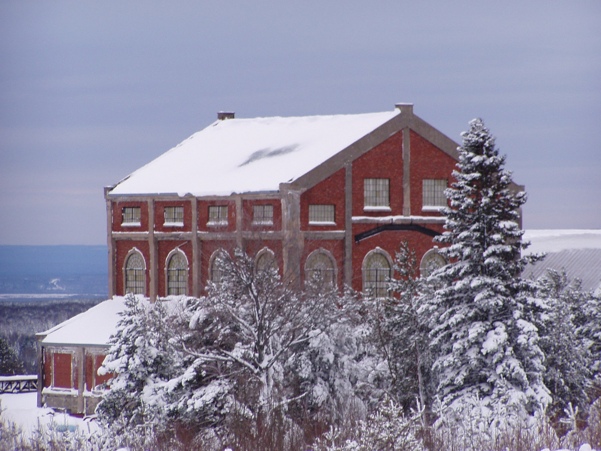 Quincy Mine Hoist Powerhouse, Houghton, Michigan